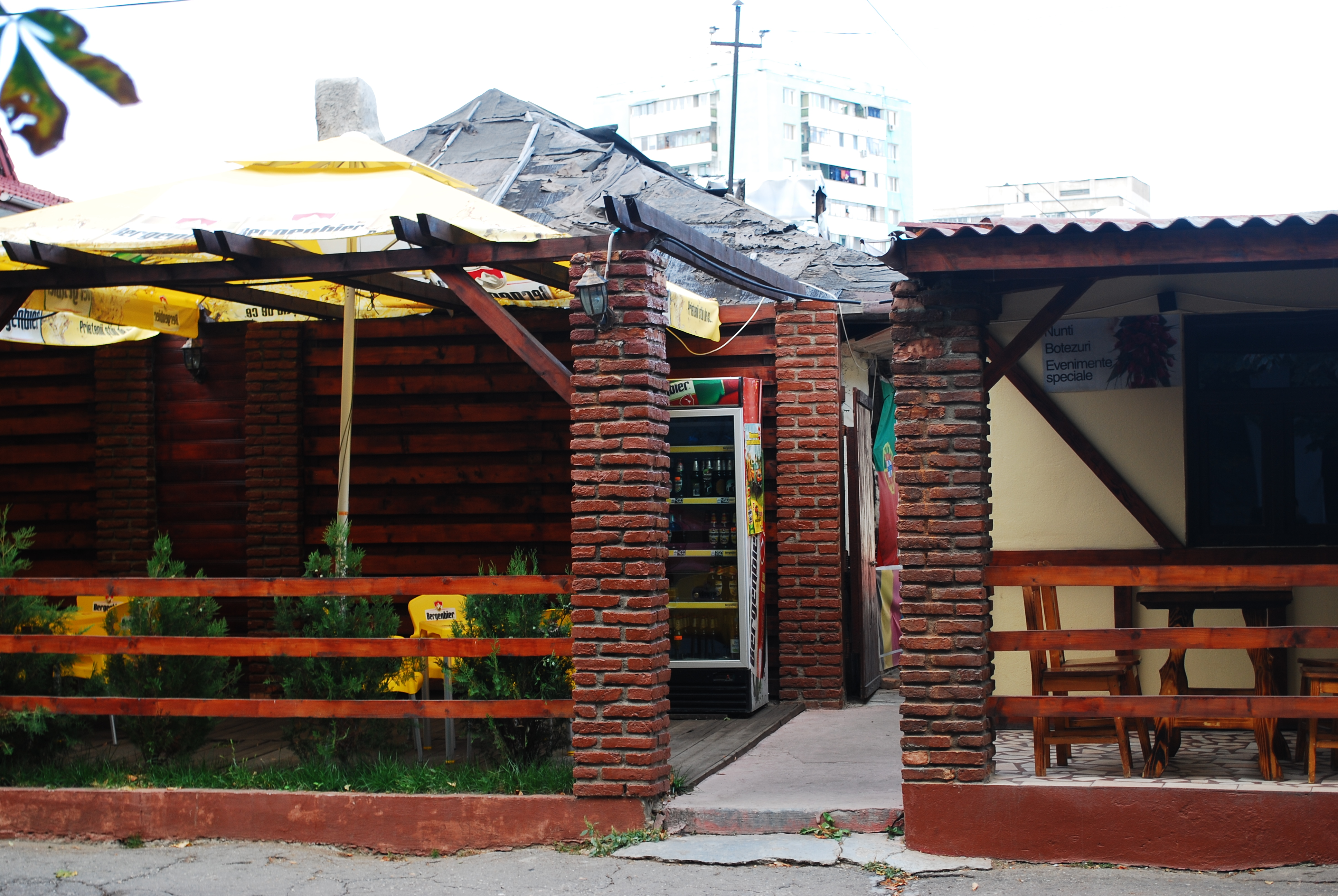 Historical building on Patriei street, no. 78, Buzău, Romania, shamefully concealed behind a restaurant